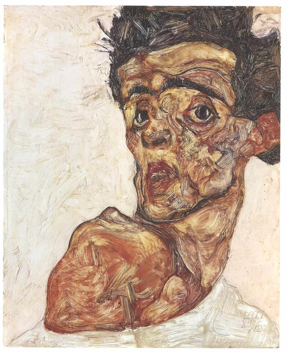 Self portrait with raised nacked shoulderlabel QS:Len,"Self portrait with raised nacked shoulder" label QS:Lde,"Selbstbildnis mit hochgezogener nackter Schulter"